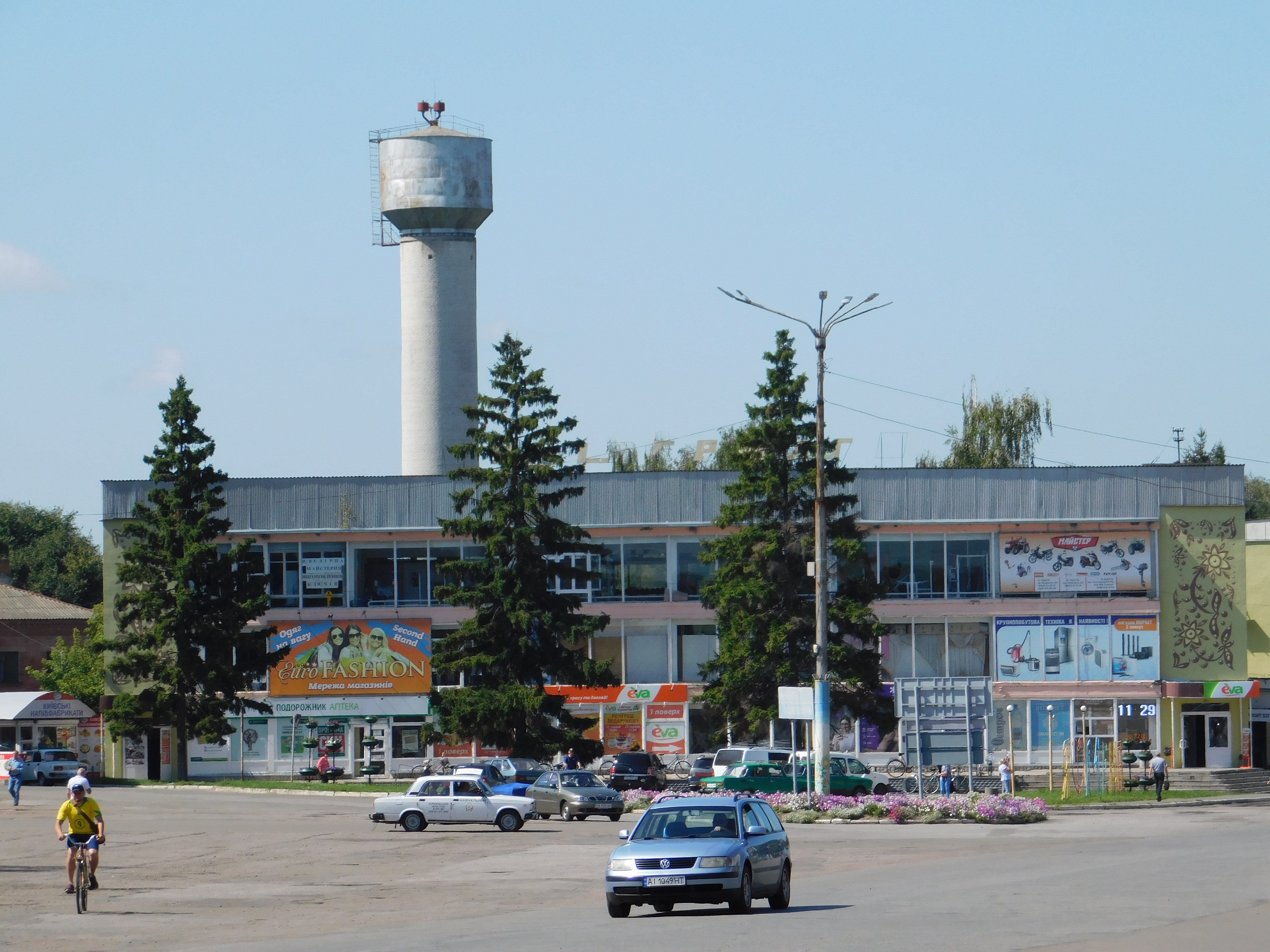 Mena shopping centre; 12.08.2019